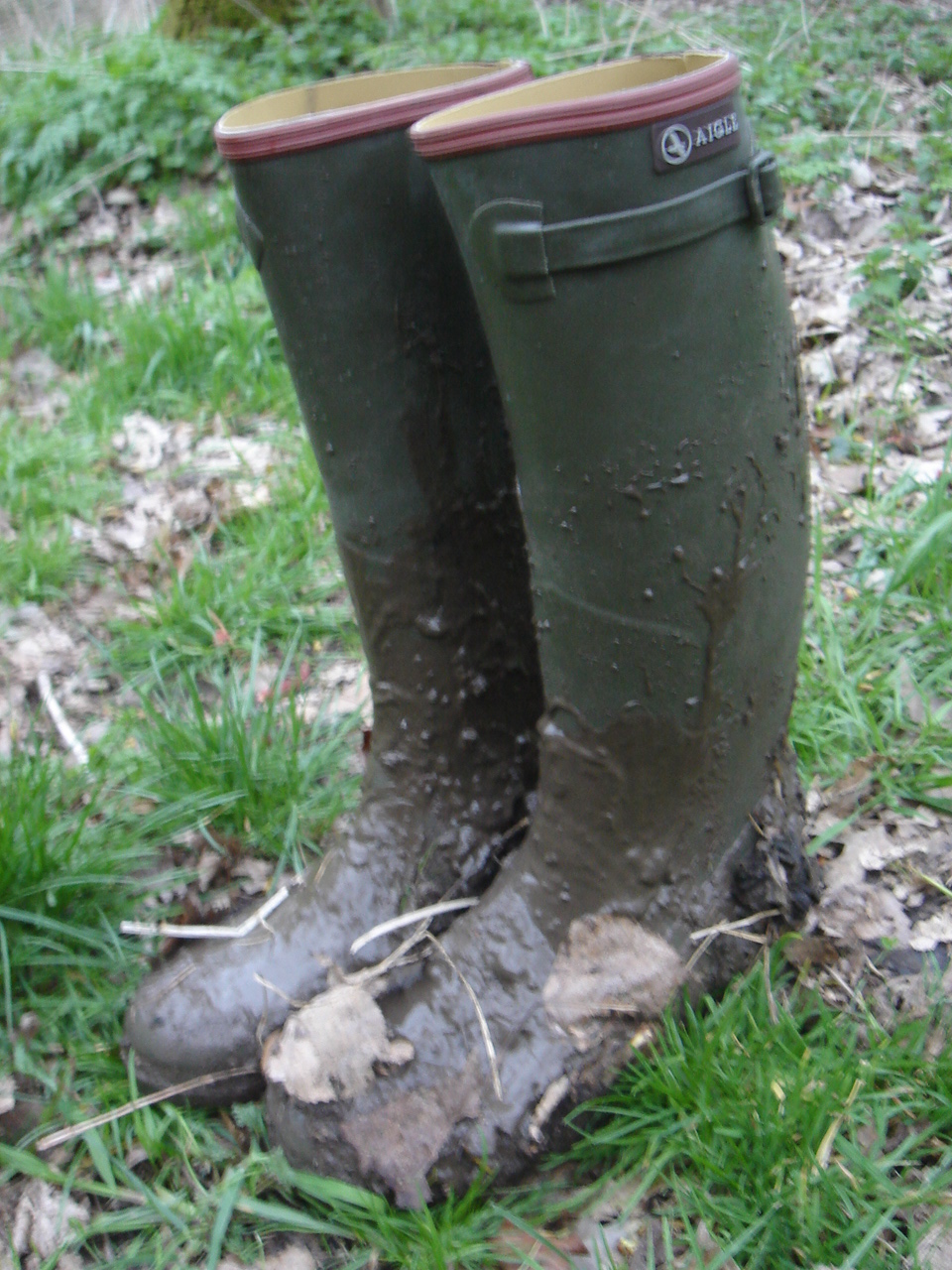 Rubber boots (Aigle).